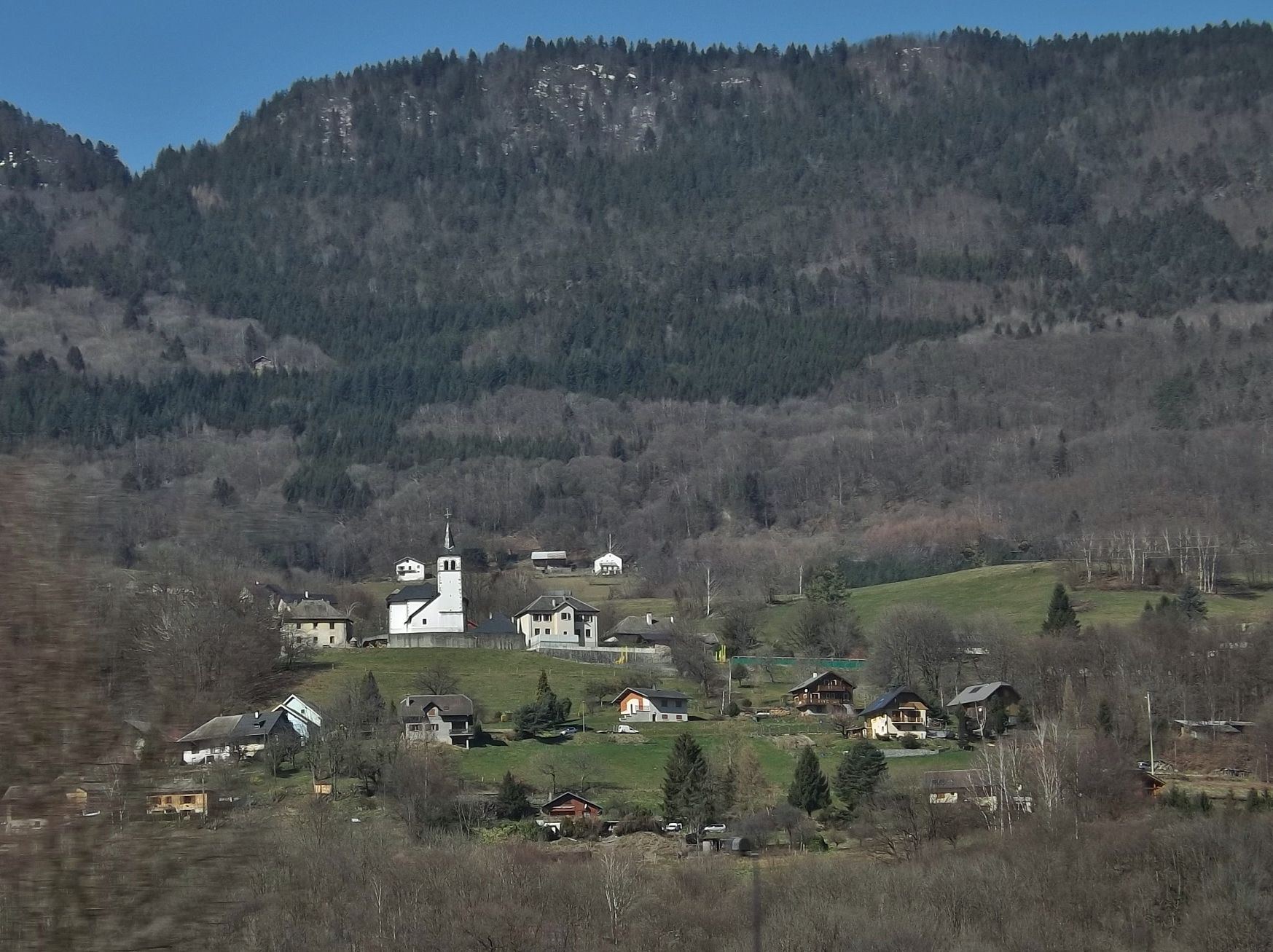 Sight, in winter, of the French village of Saint-Alban-d'Hurtières, in the Maurienne valley, in Savoie.